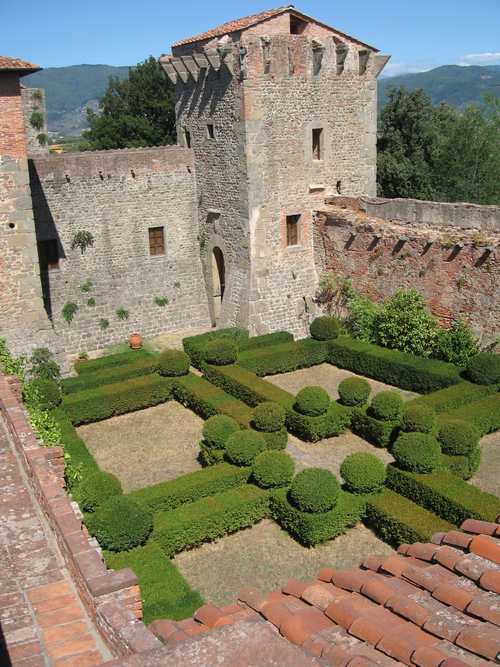 view from castle